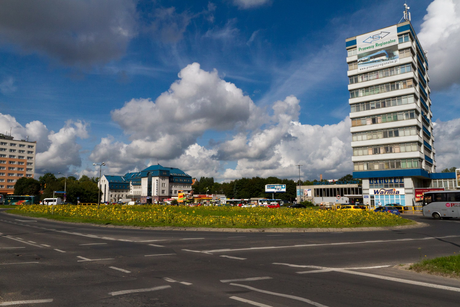 Constitution of May 3 Square in Olsztyn